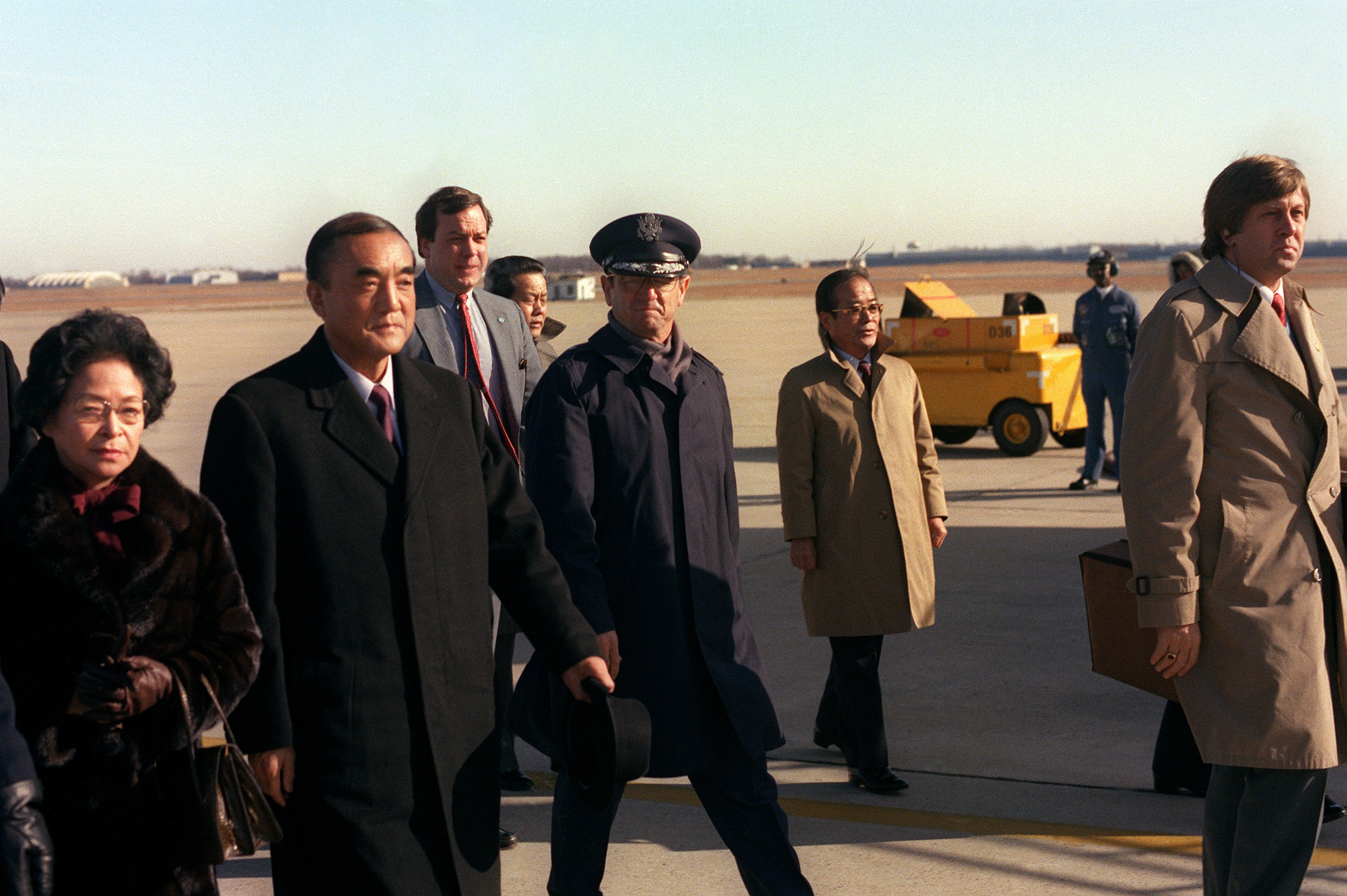 Japanese Prime Minister Yasuhiro Nakasone (中曾根康弘, in office 1982-87), departs at the conclusion of his visit. Location: Andrews Air Force Base, MD, USA